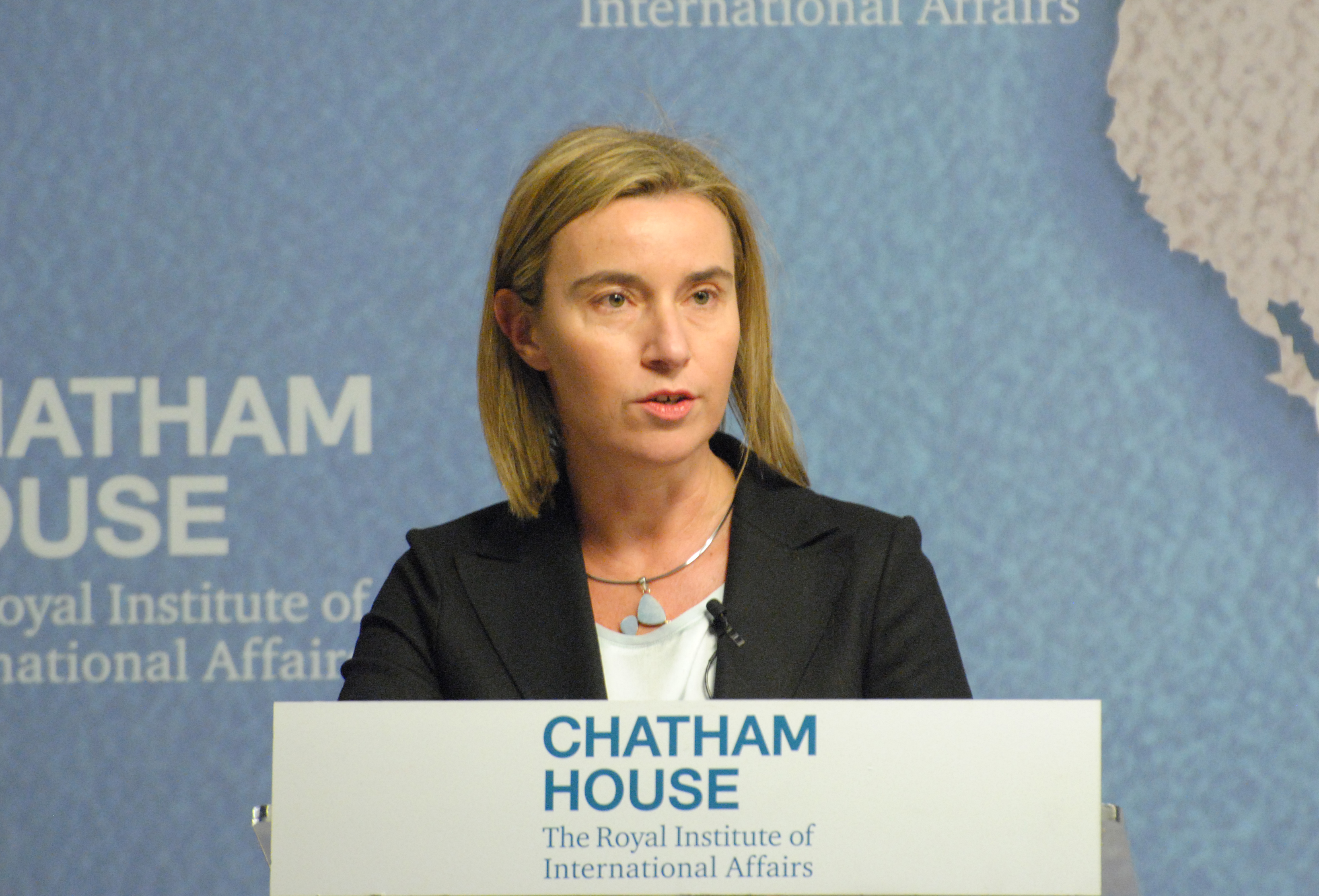 Responding to Foreign Affairs and Security Challenges in the EU's Neighbourhood, 24 February 2015, cht.hm/1DdBRZE